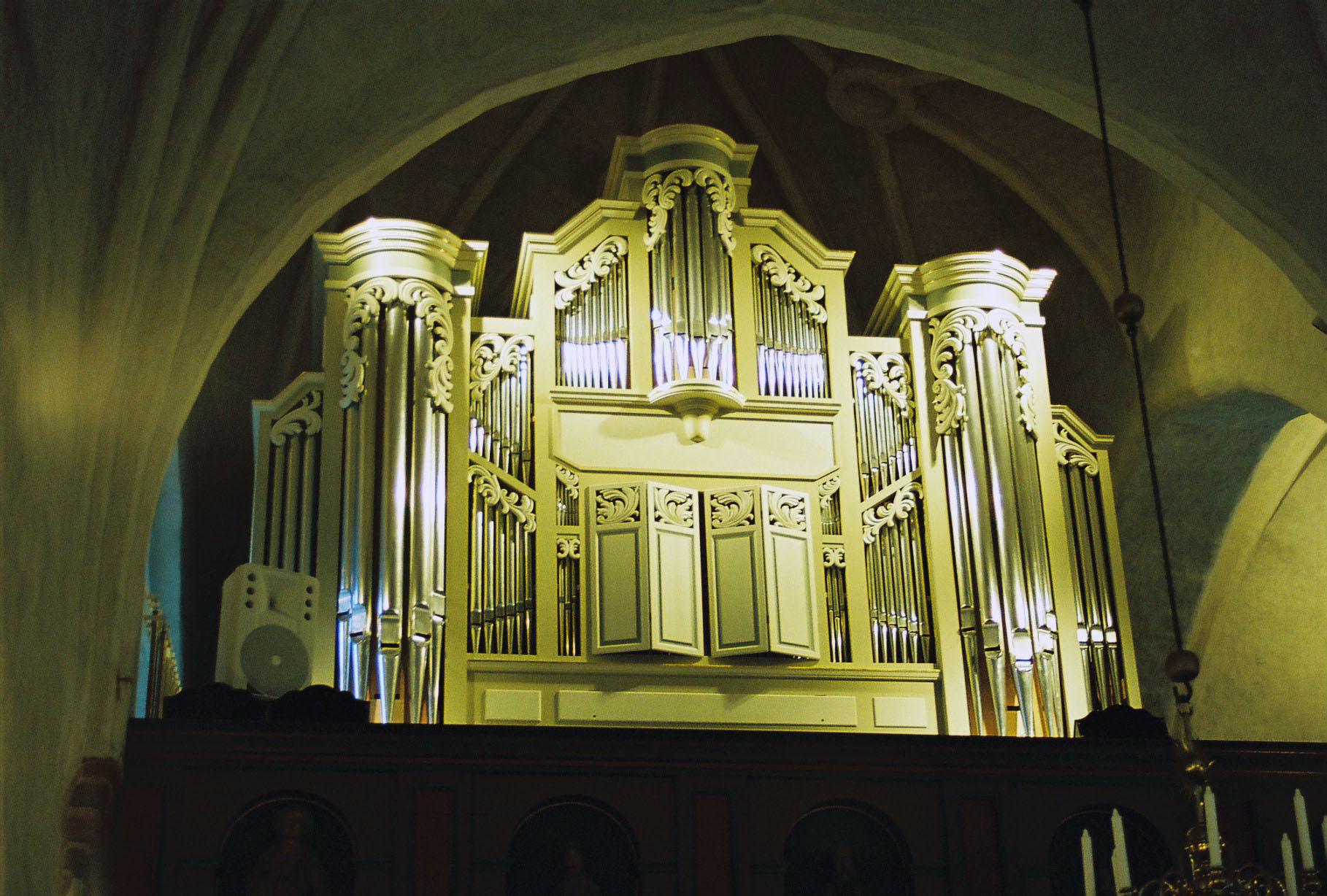 Organ of Hollola medieval church built by Matti Portan 1994